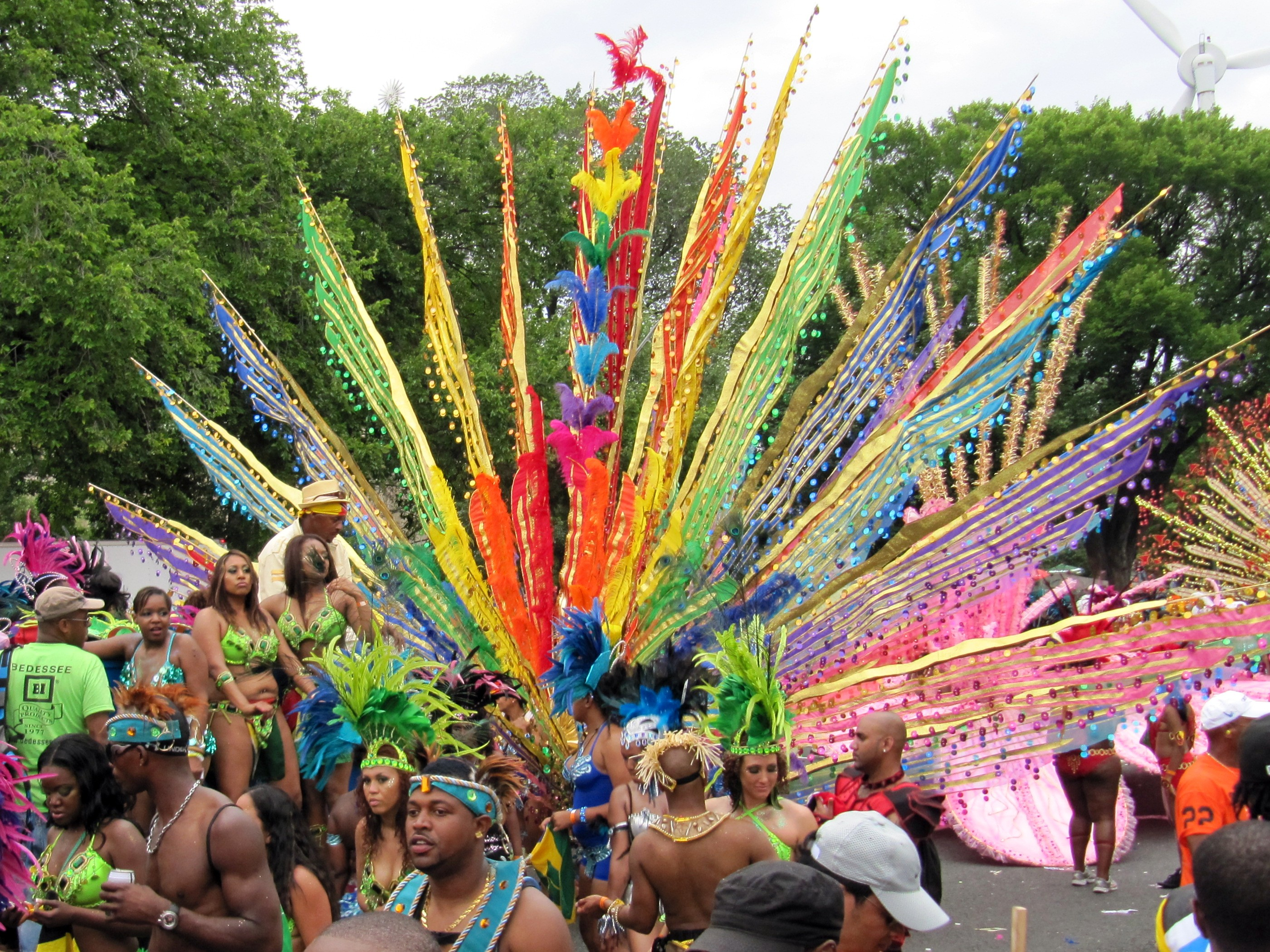 Giant feathery costume looming over the crowd at the 2010 Caribana parade in Toronto.